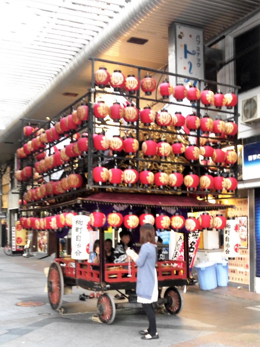 安積国造神社秋季例大祭 出発前の山車